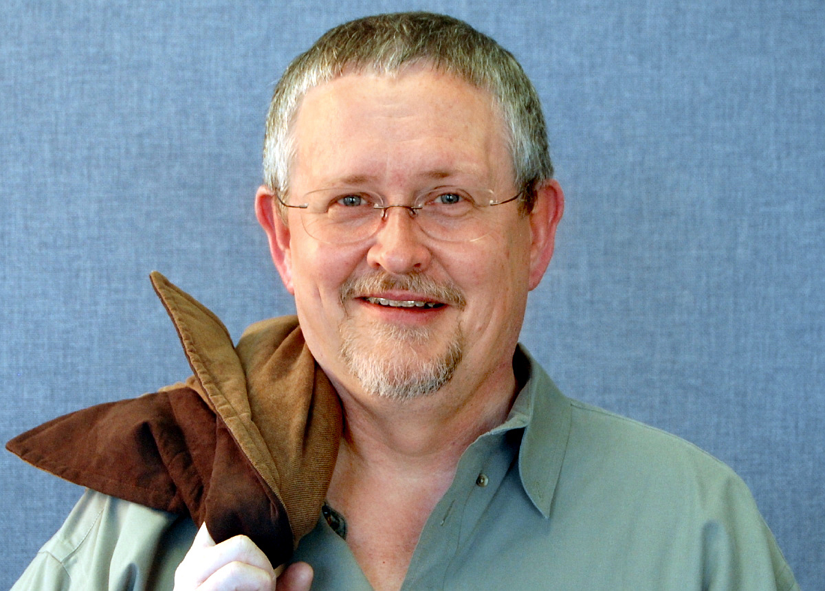 Orson Scott Card at Life, the Universe, & Everything at Brigham Young University in Provo, Utah.